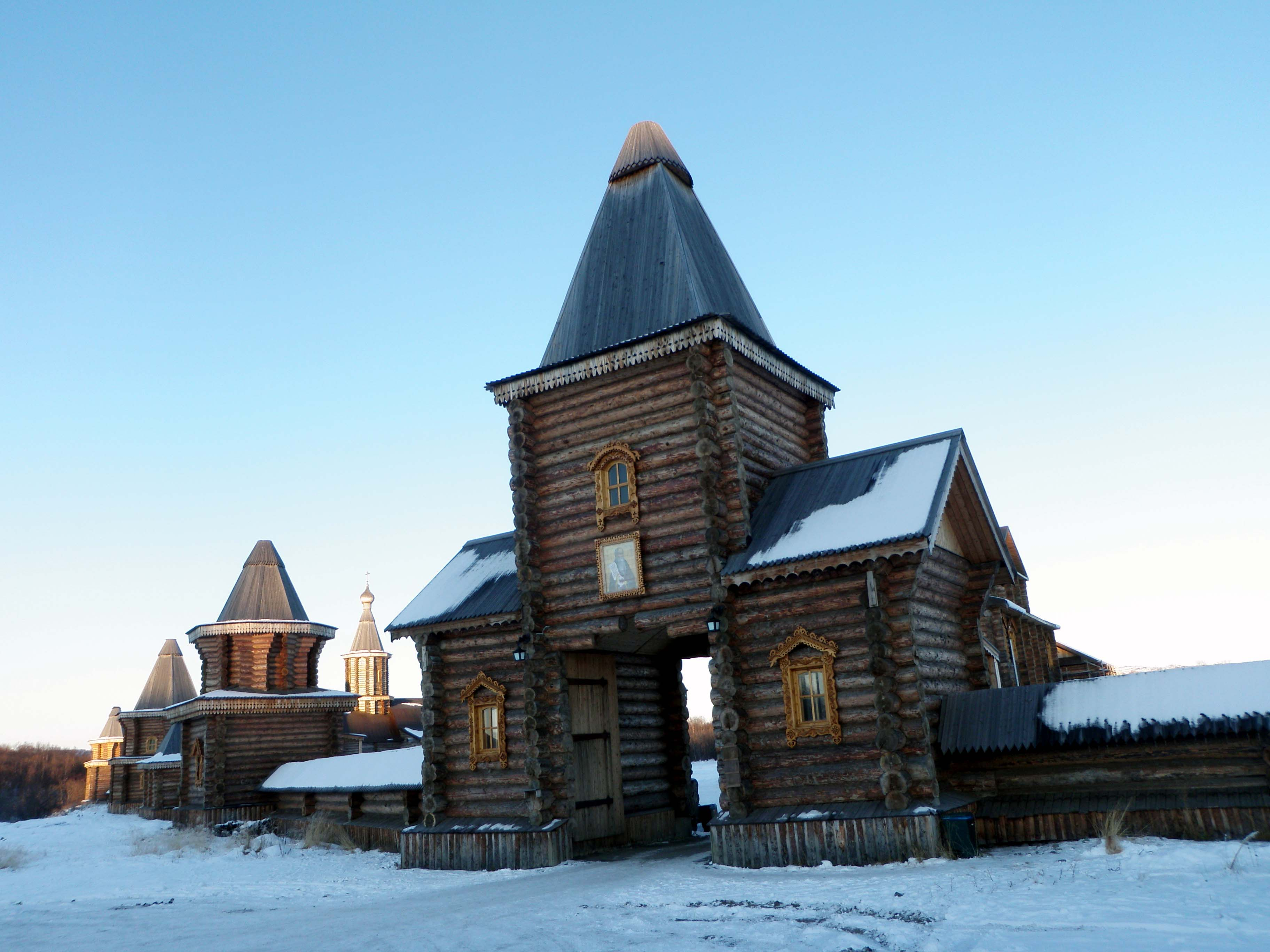 The entrance gate to Pechenga Monastery, in Murmansk Oblast, Russia.